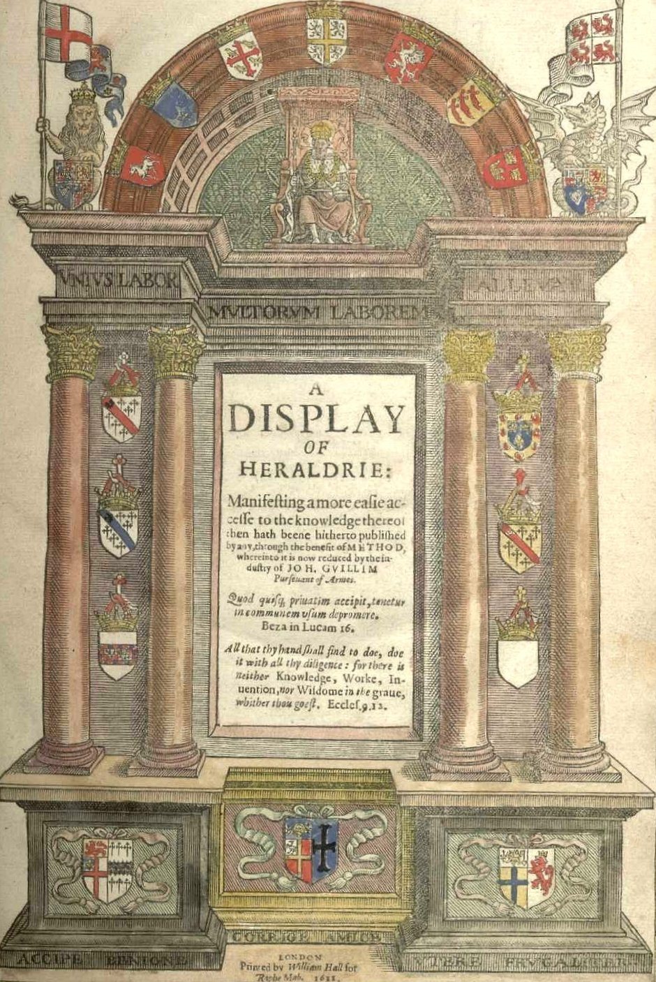 The frontpiece of John Guillim's A Display of Heraldrie, published in London in 1611.